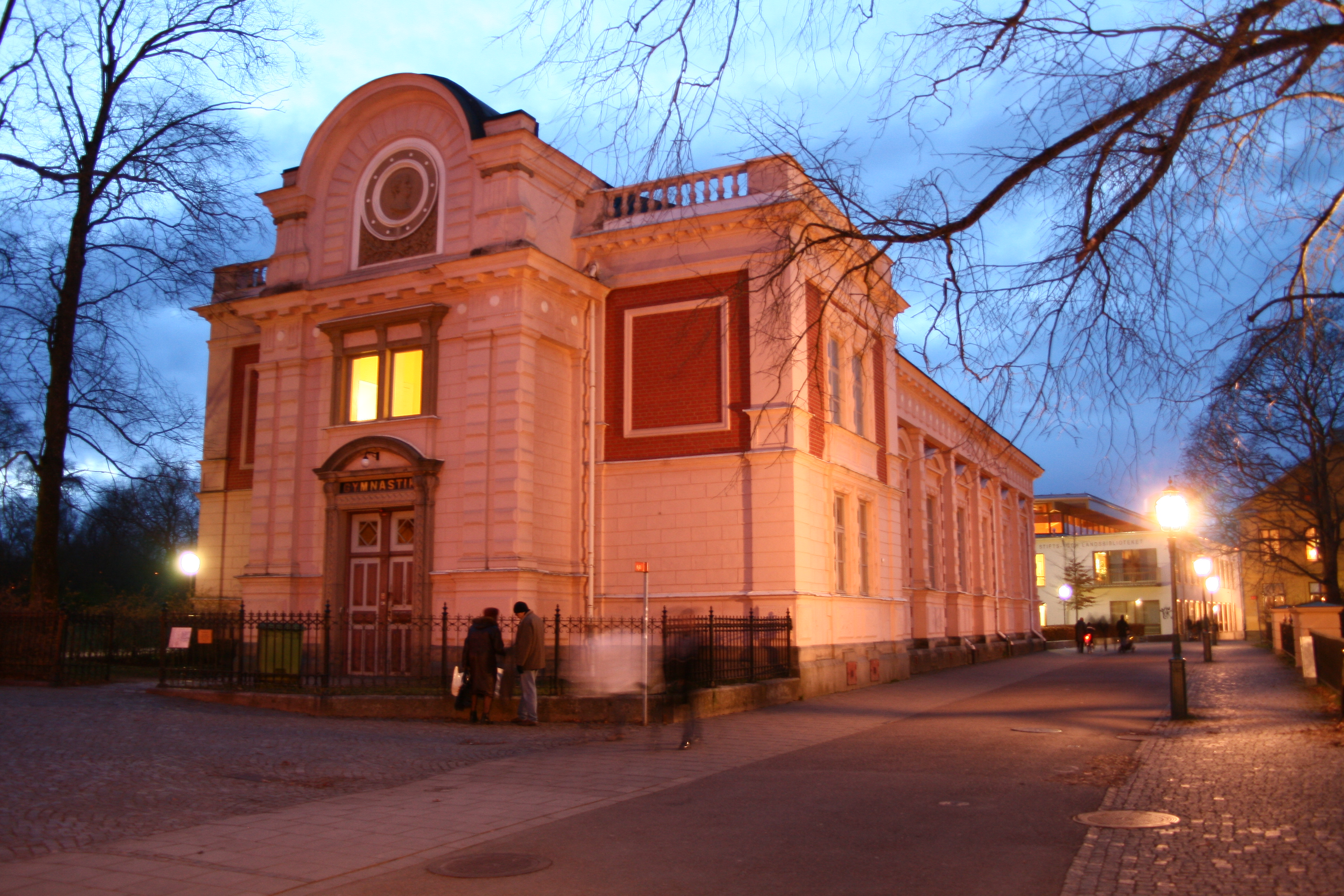 The old sports and gymnastics building in central Linköping, next to the cathedral. Built in 1882. Architects Rudolph Ström, reworked by Axel Fredrik Nyström.